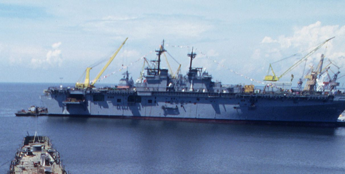 DN-ST-88-00319 A view of the Nos. 1 and 2 Mark 7 16-inch/50-caliber gun turrets aboard the battleship USS WISCONSIN (BB 64). The ship is undergoing overhaul by Ingalls Shipbuilding and is 50 percent complete. The amphibious assault ship USS WASP (LHD 1) is in the background. This is a crop, which focusses on WASP